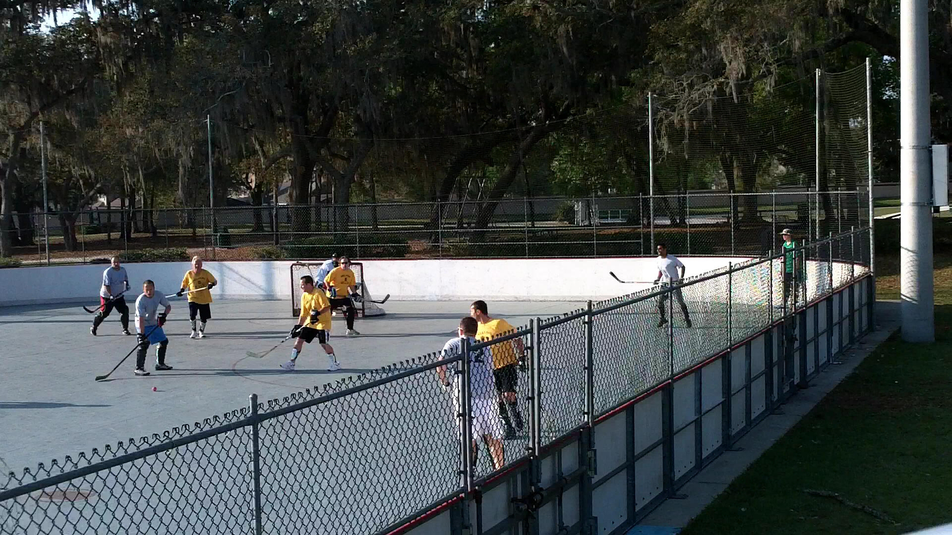 This picture shows adults playing organized street hockey in a league. This is generally refereed to as "dek hockey" or "ball hockey". They are playing in an outdoor rink that is 175 feet long by 80 feet wide. Each team has 5 runners and a goaltender. There are 2 officials in each game. In this photo, the person wearing the green polo shirt is an official.